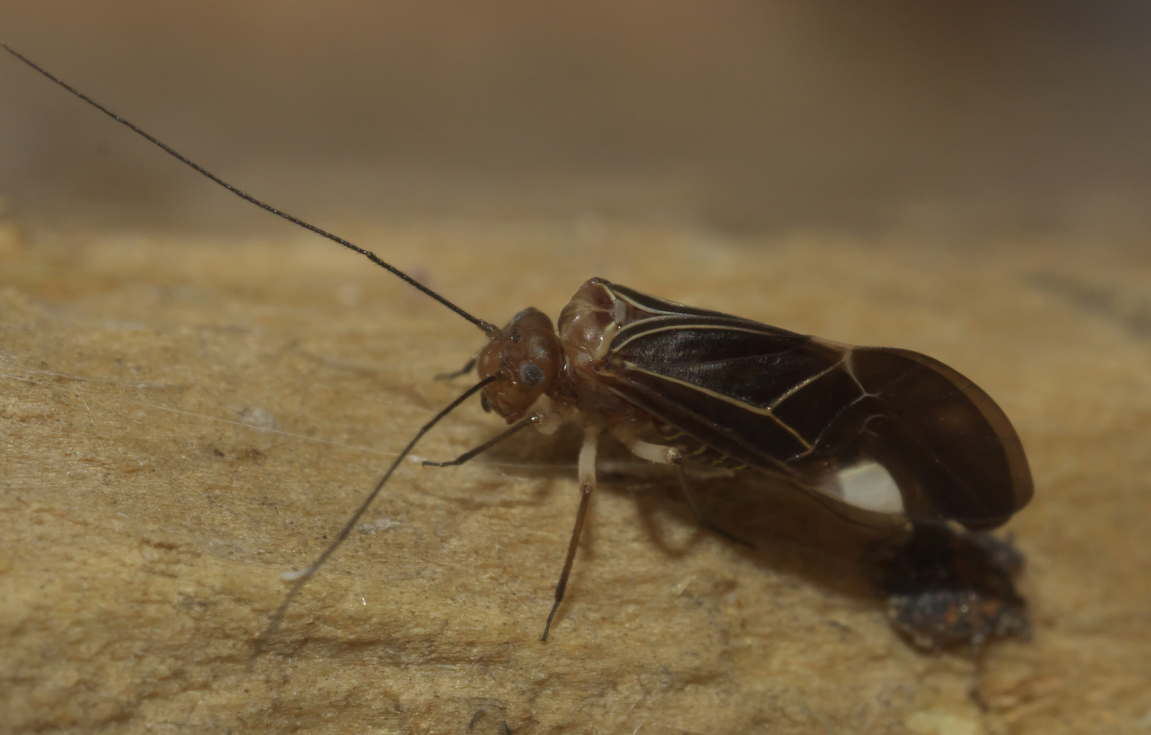 Cerastipsocus venosus, Family: Common Barklice, ID Confidence: 90